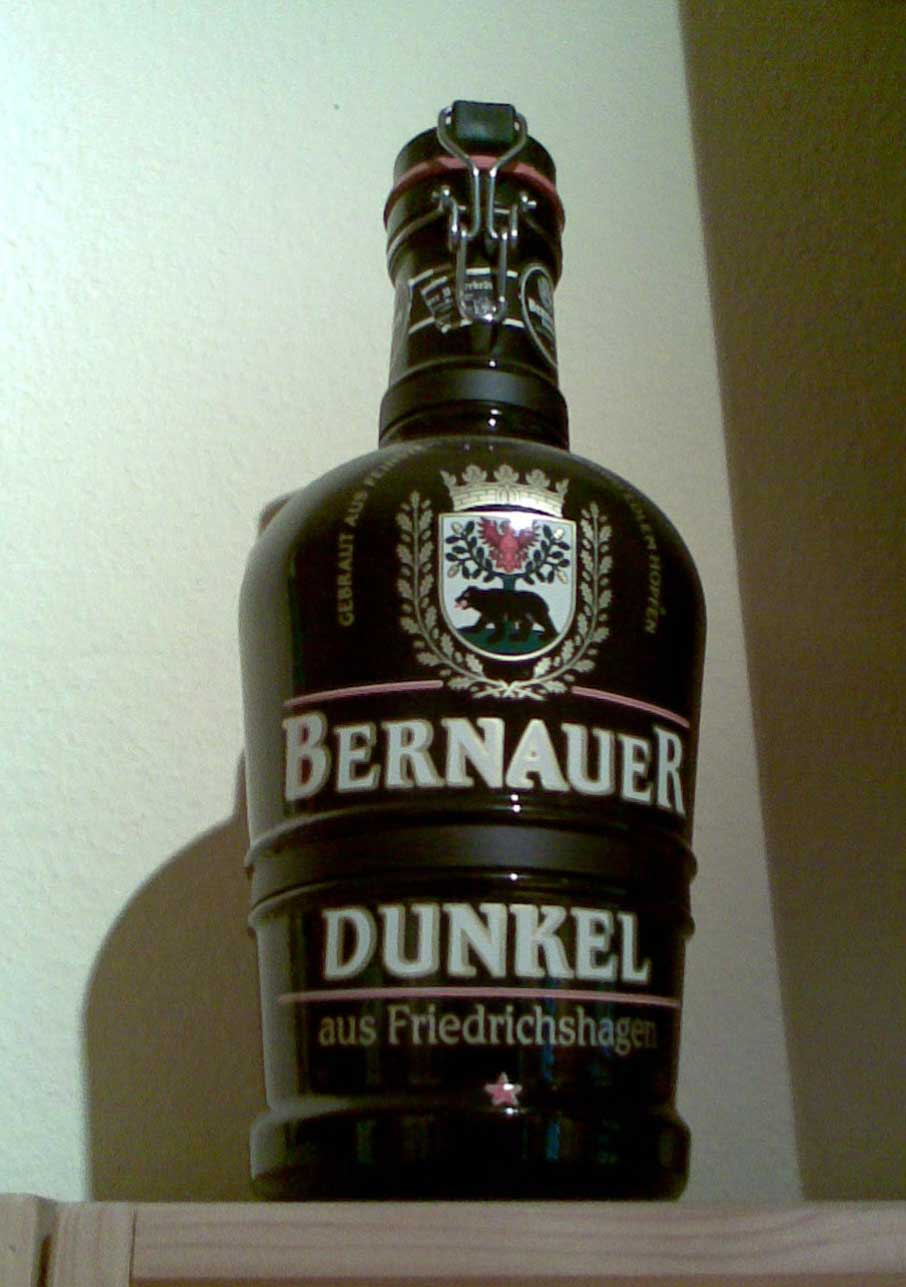 A can within a blackbeer from Bernau near Berlin. Bernauer Beer.